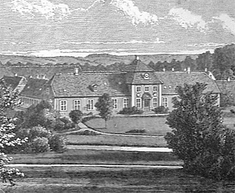 Manor of the house Rathlousdal. Was originally called Loverstrup and was by Frederik 3rd given to "Rigsdrost" J. Gersdorff, his sun in law "Hofmester" Gregorius Rathlou here built a timber-framed estate (1674) that he called Rathlousdal. The present main building was built in the end of the 18th century by Priminister Schack-Rathlou. The "Stamhus" that was started in year 1747, is now owned by the family Holstein-Rathlou.